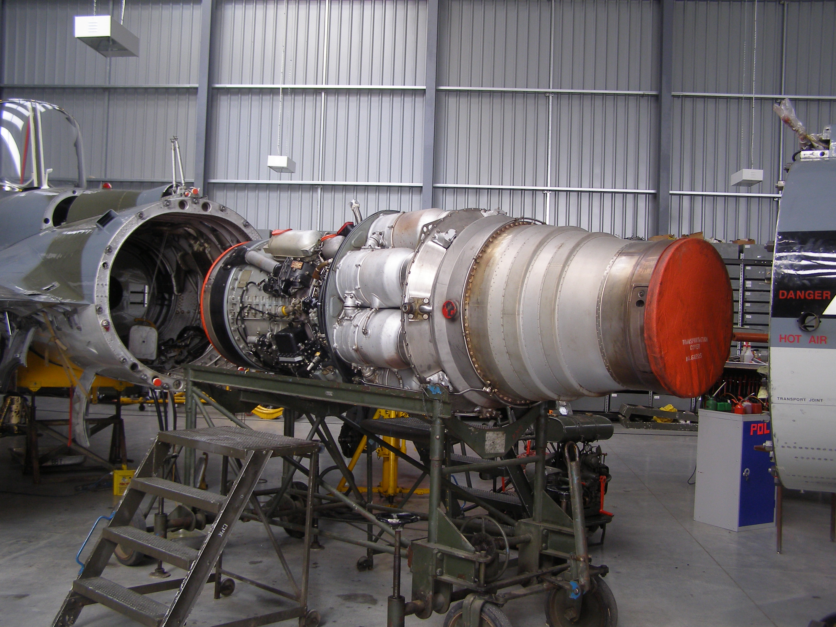 Rolls-Royce Avon Mark 122 engine from a Hawker Hunter T7 (G-BXFI WV372 ) being repaired at Kemble Aerodrome